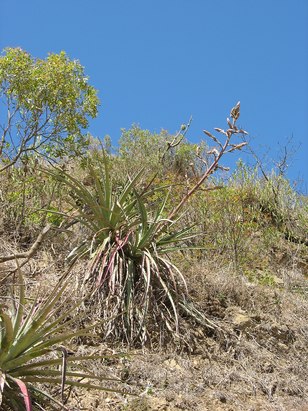 Puya claudiae in habitat in Bolivia, exact location unknown.